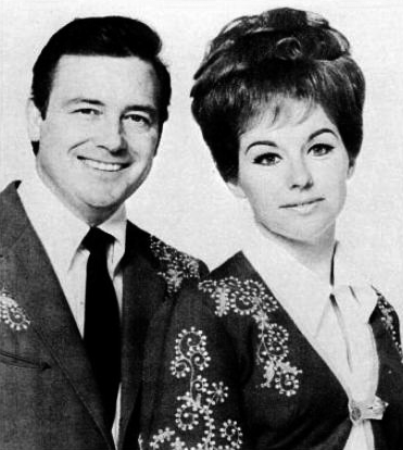 Trade ad for Johnny and Jonie Mosby's single "I'm Leaving It Up To You". To better adapt it to his respective Wikipedia article, the ad was cropped and cleaned in a graphics editing program. The original can be viewed at the source below.